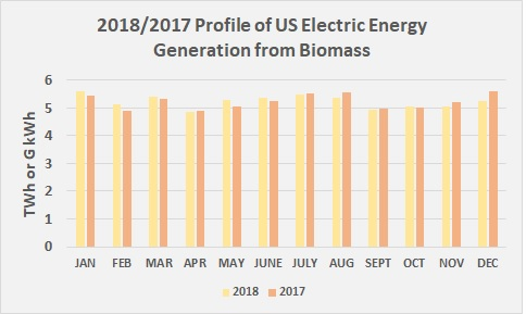 2018 & 2017 Profile of US Electric Energy Generation from Biomass